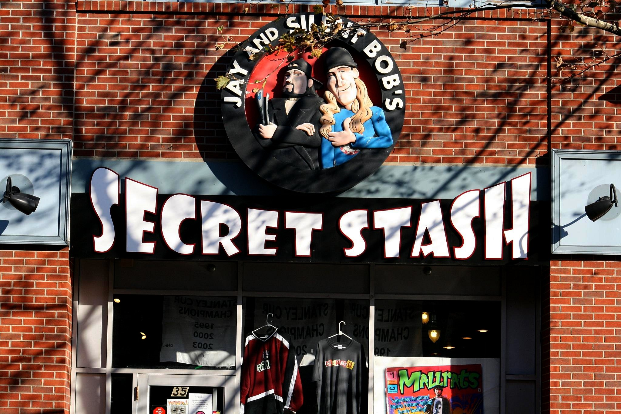 The store front of Jay and Silent Bob's Secret Stash in Red Bank, New Jersey.